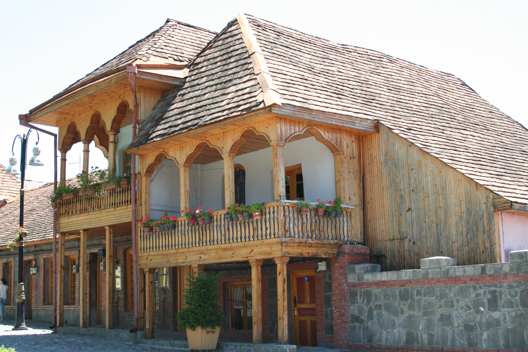 Ichery Bazar (House where Mahammad Magomayev lived)